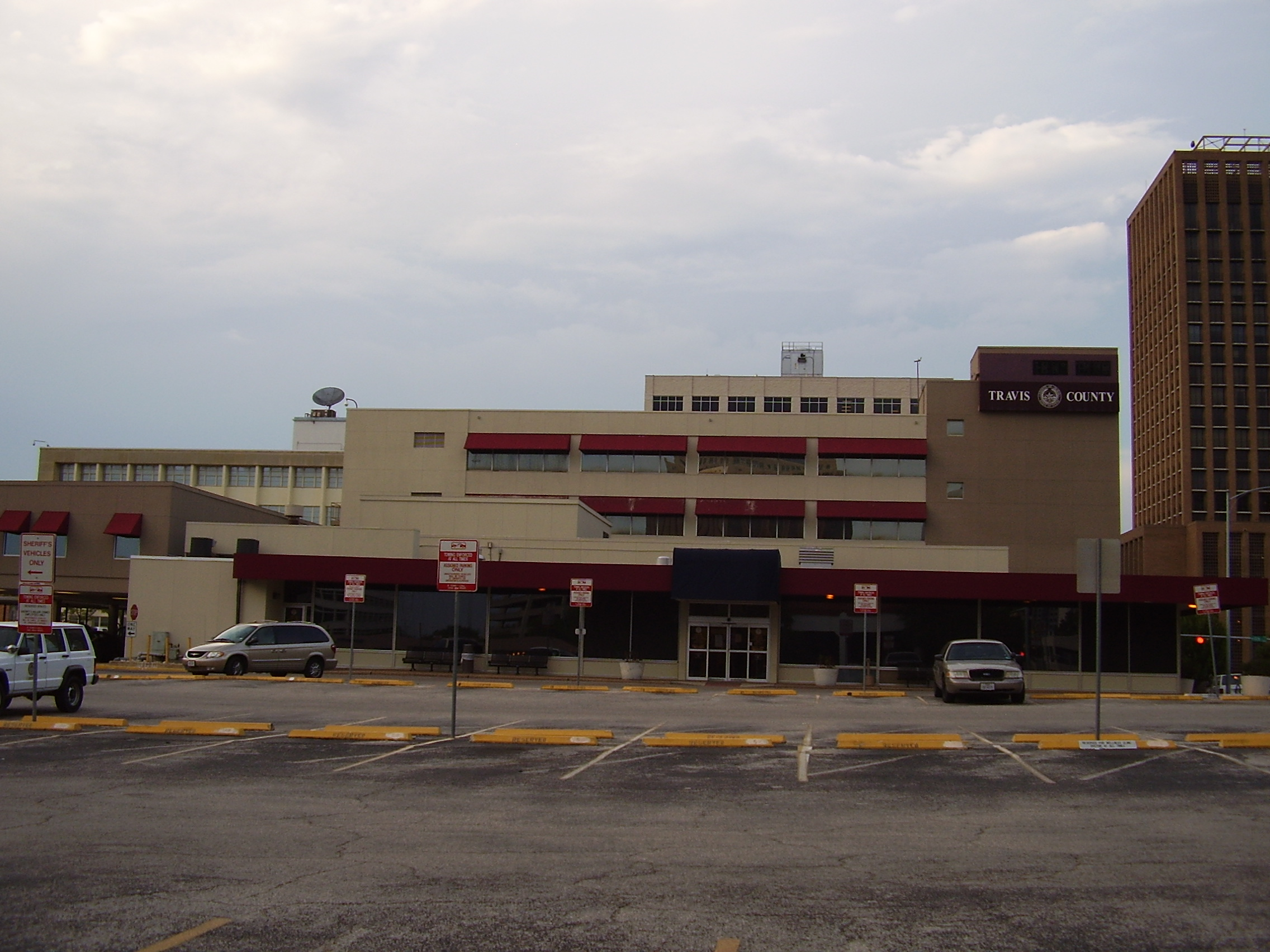 Old University Savings Building (USB Building), a Travis County, Texas facility at 1010 Lavaca Street